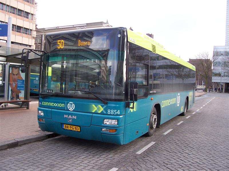 MAN EL283 Lion's City T (EL283?) bus (#8854) in Utrecht, Netherlands.